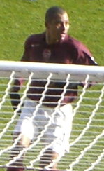 Gilberto Silva playing for Arsenal FC at Highbury